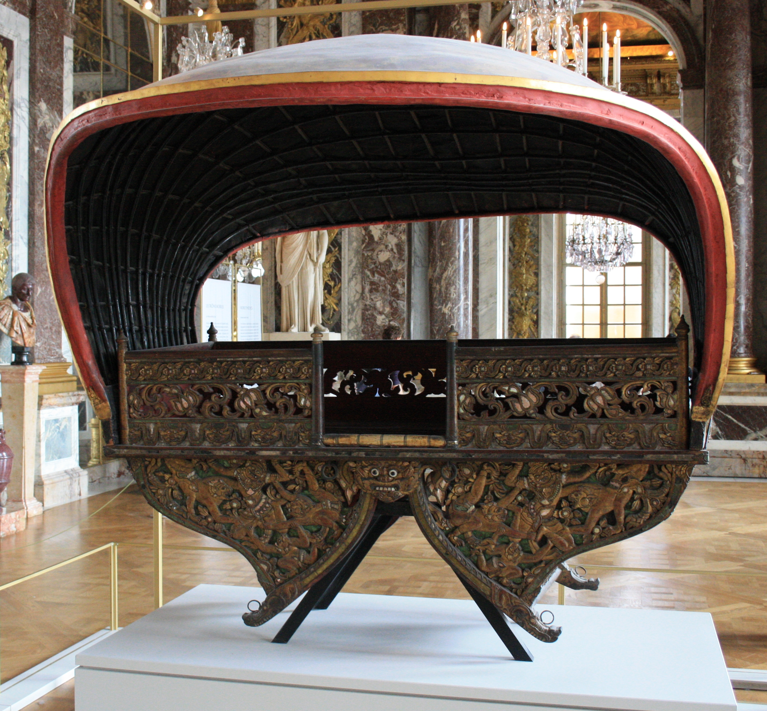 Howdah Phra Thinang Prapatthong of prince Inthawaroros Suriyawong. The howdah is a carriage placed on an elephant's back. Beginning of the XXth century. Coming from the national museum of Bangkok. Shown in the Palace of Versailles in Versailles, France